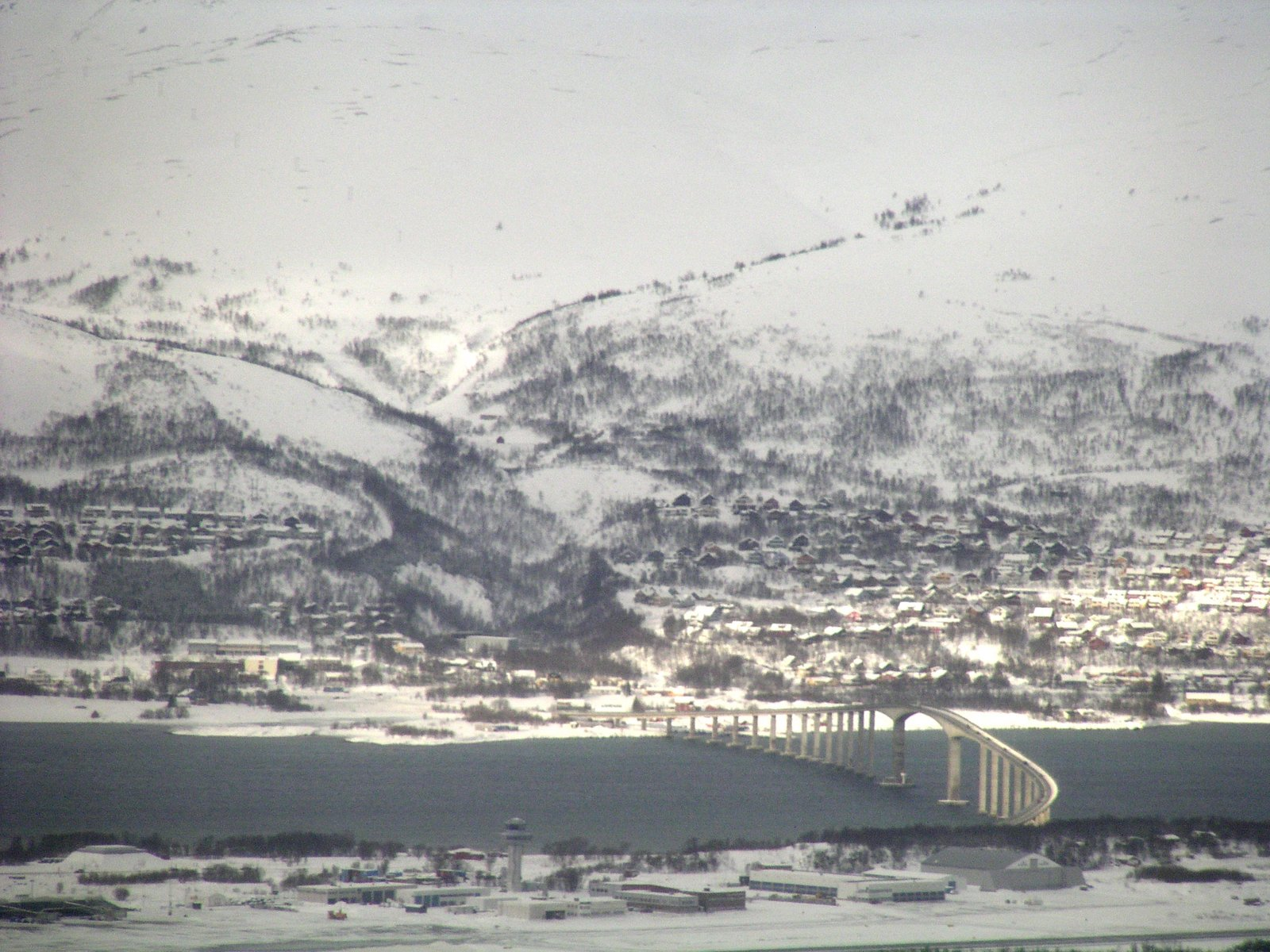 Kvaløya, Troms, Norway. Tromsø Airport in the foreground